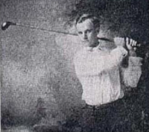 A circa 1912 photograph of Joseph A. Roseman, Sr. (1888-1944), an American golf professional, golf course architect, and inventor of golf course maintenance equipment. Date Circa 1912 Author Unknown